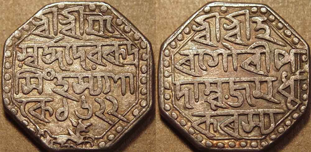 Silver rupee of Sukhrungphaa (reign 1696-1714), or Rudra Simha